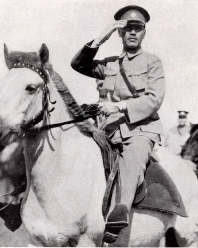 Chiang Kai-Shek in 1926. Bân-lâm-gú: 1926-nî ê Tsiúnn Kài-tsio̍h.